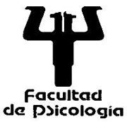 Logo Psicología UNAM